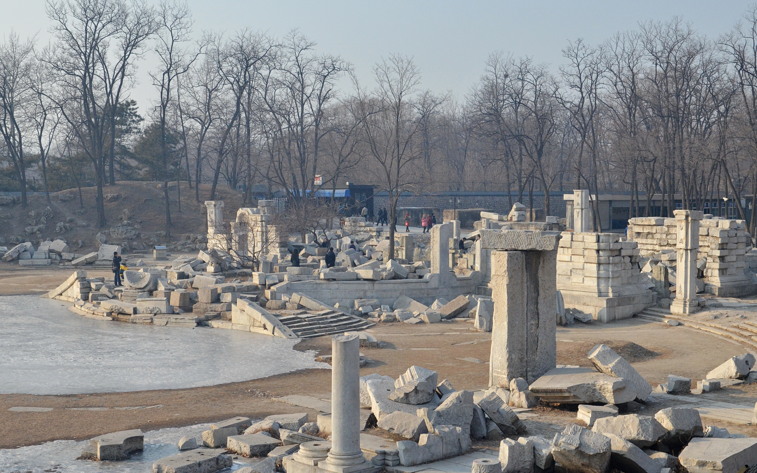 Ruins of Xieqiqu